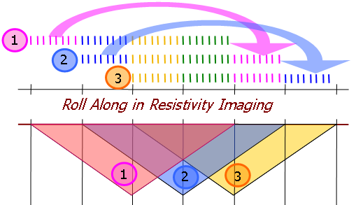 Roll Along in Resistivity Imaging